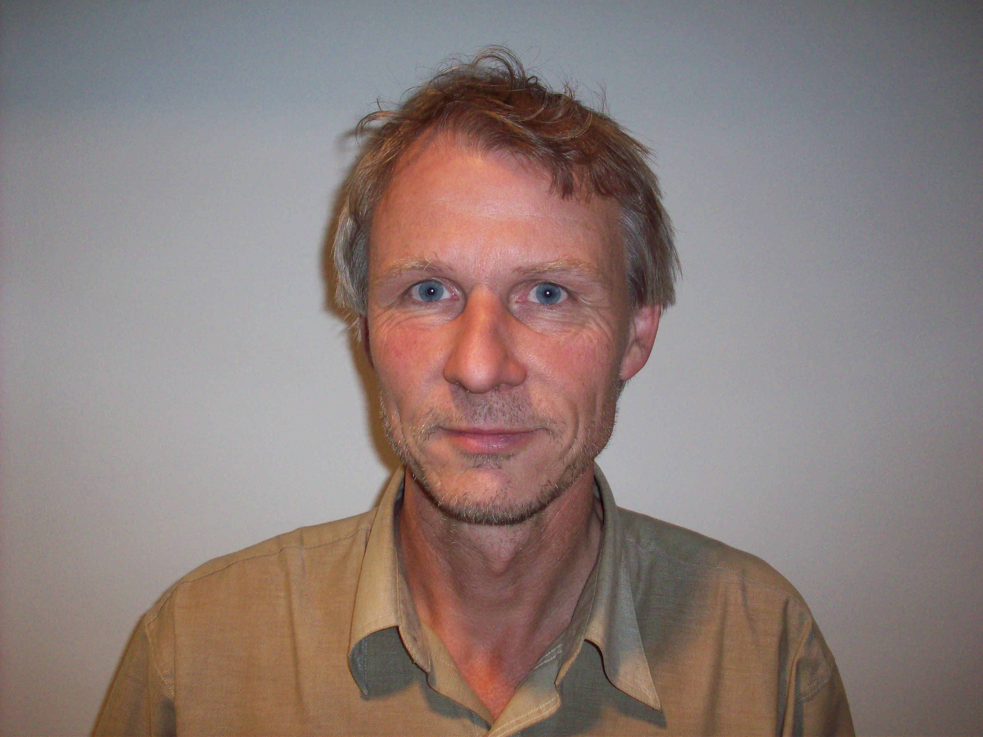 Eckhard Bick, famous German esperantist living in Denmark